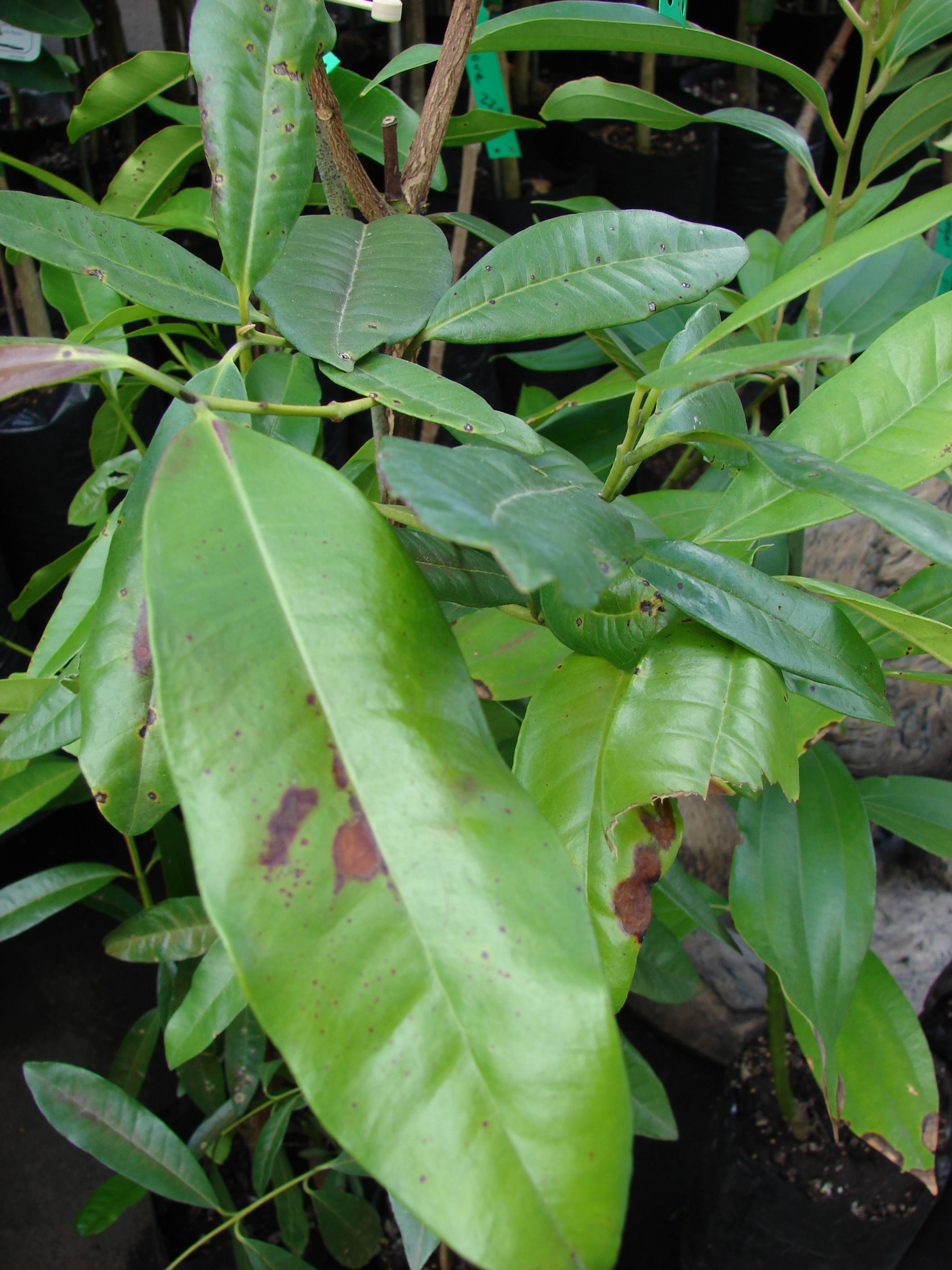 Pimenta dioica (leaves). Location: Maui, Kula Ace Hardware and Nursery